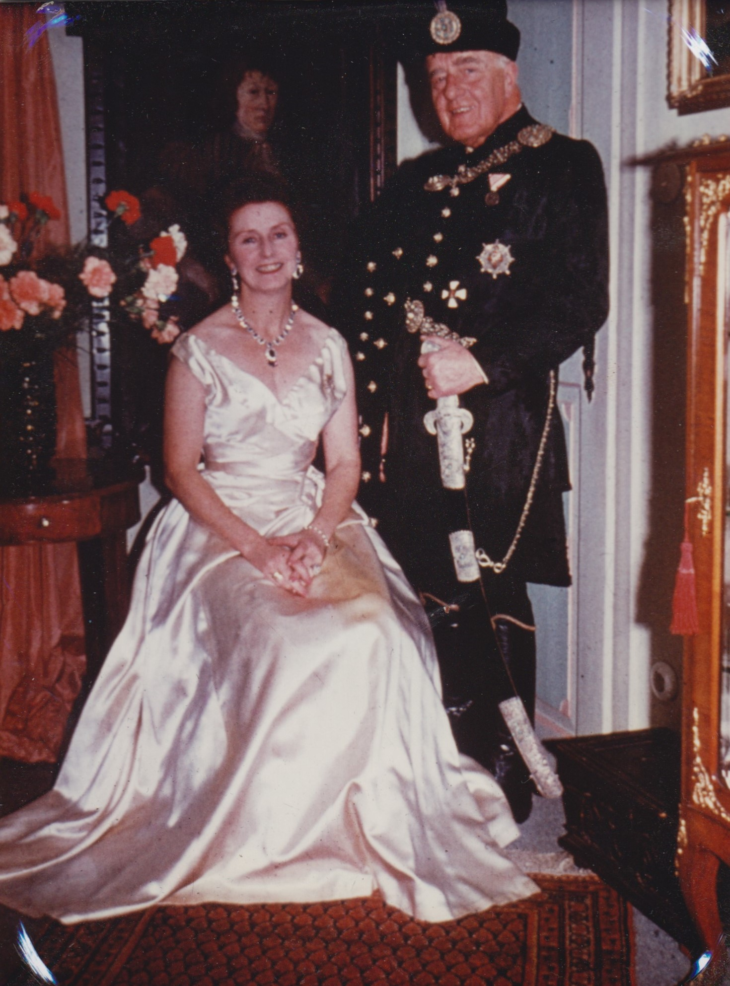 Helene von Bothmer and Dr. Karl Graf von Bothmer (wedding)